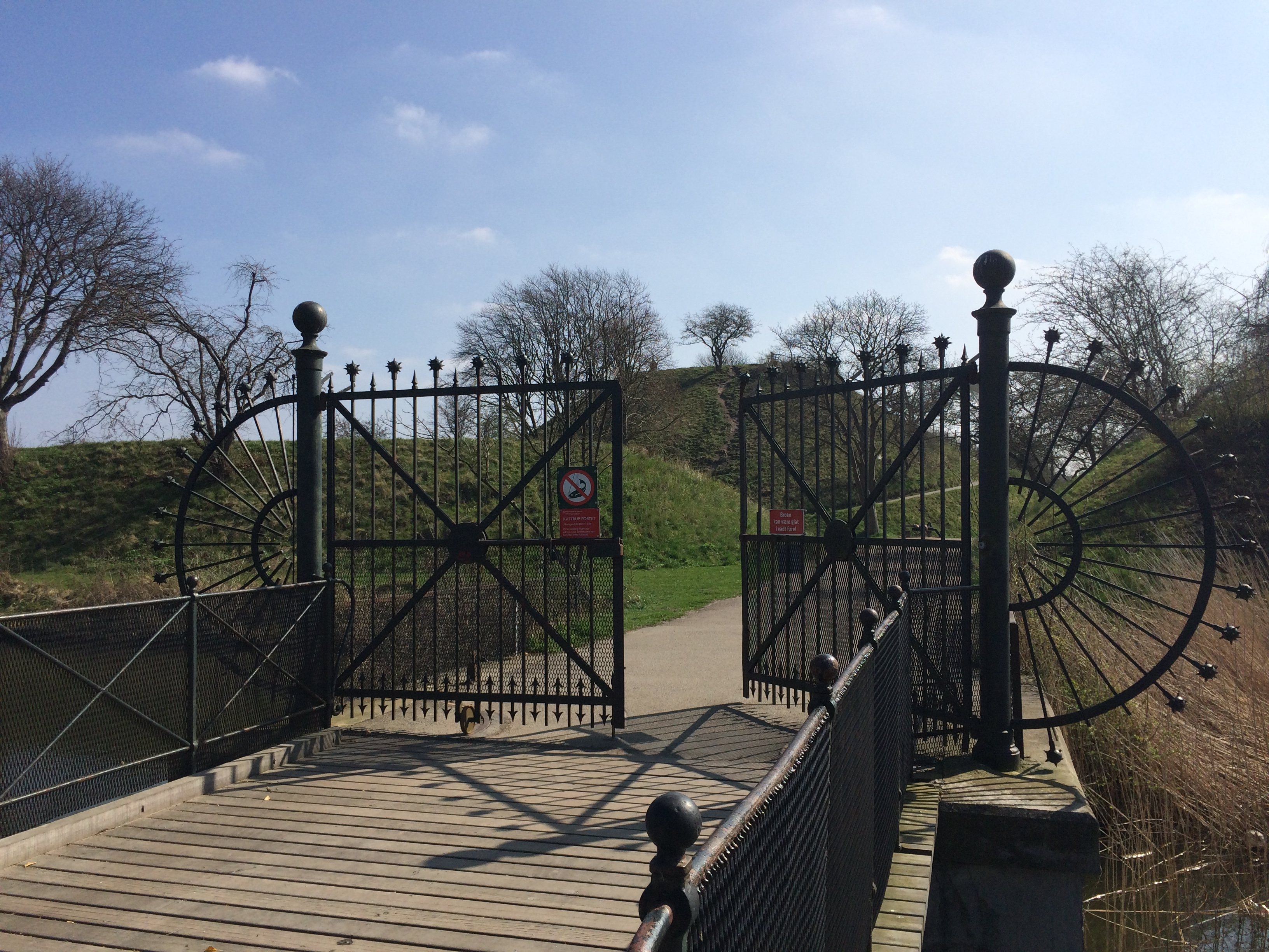 Gate to Kastrup Fort in 2017